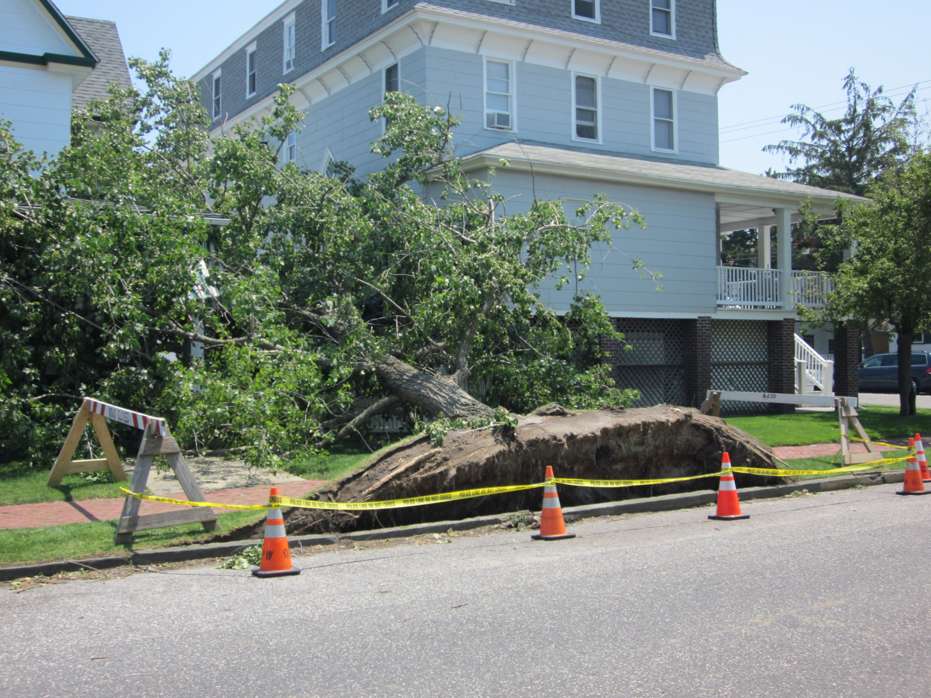 Downed tree on Central Avenue in Ocean City after derecho produced strong winds on June 30, 2012